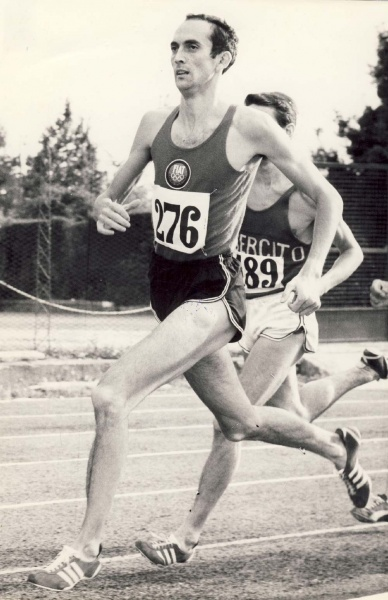 Franco Arese in a race in Italy in 1970's